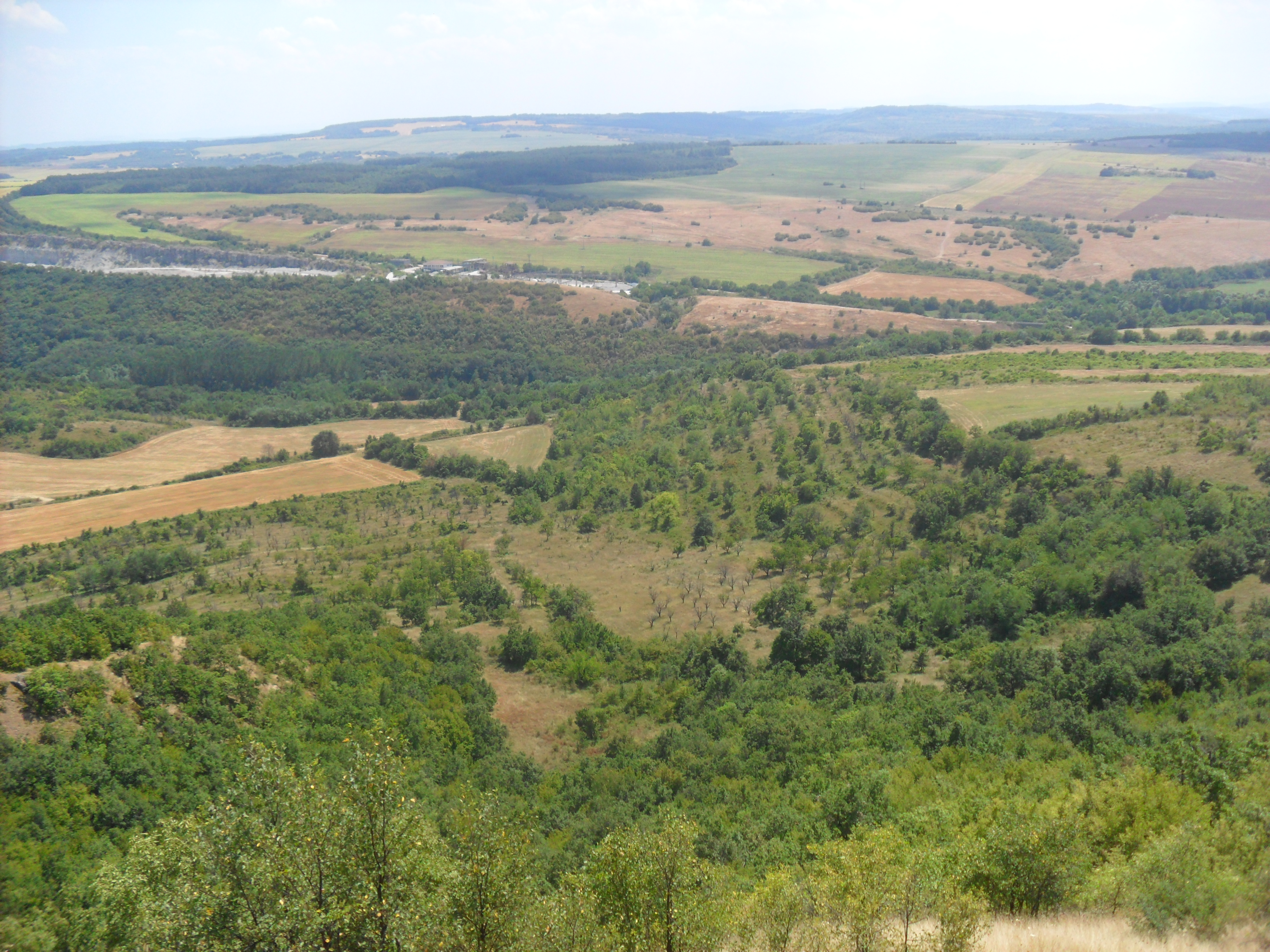 Thracian Mulls,Zarapovo`s river